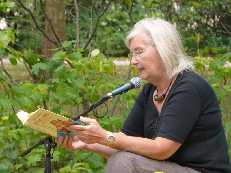 German writer Dagmar Chidolue at the Erlanger Poetenfest 2012